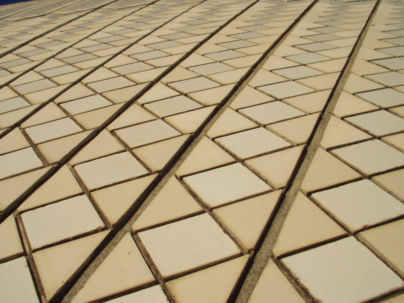 Sydney Opera House roof tiles closeup